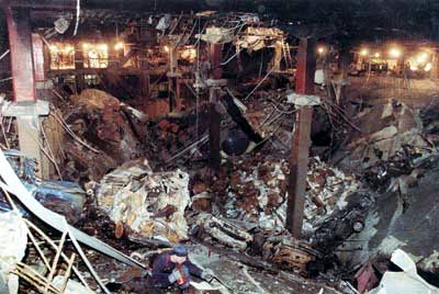 Image from: First uploaded to en: wiki, and cropped.